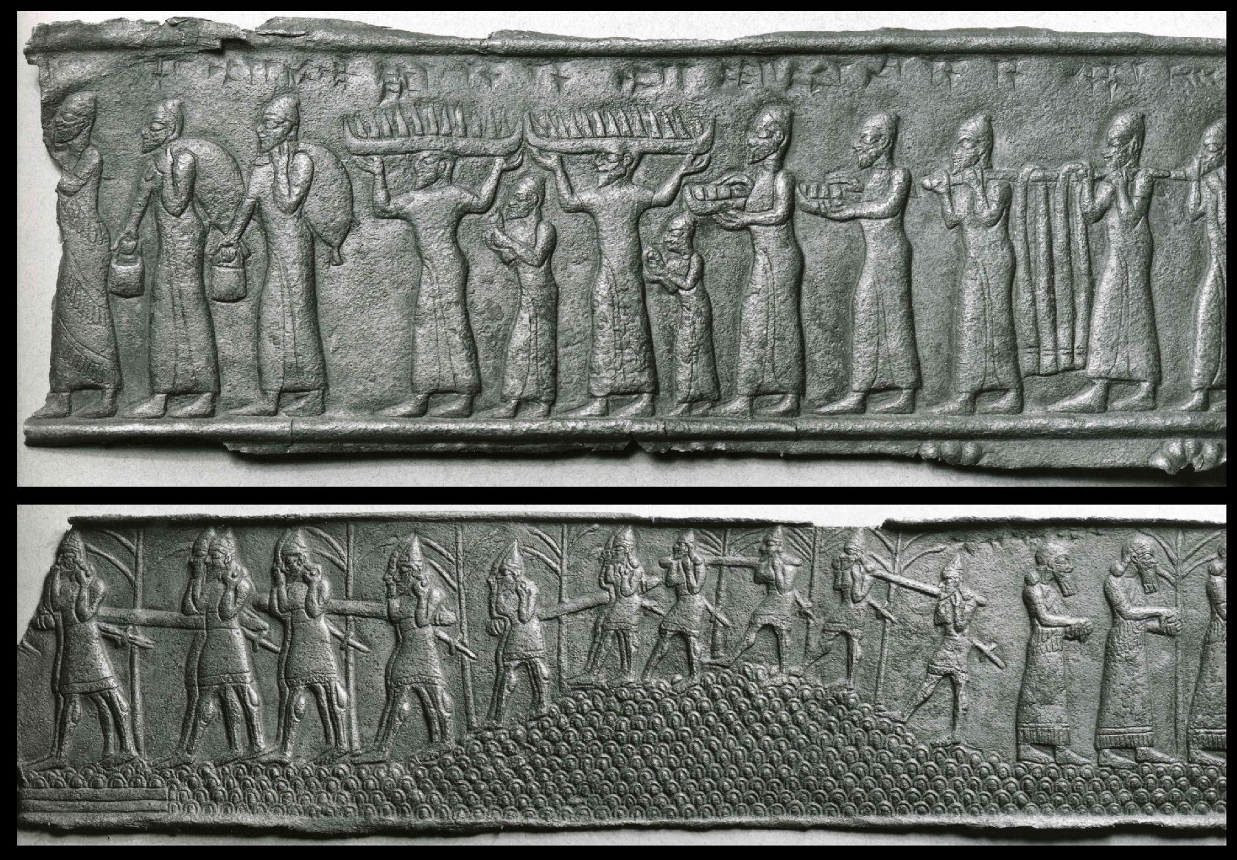 During the Assyrian period (900-609 BC), royal artists frequently depicted major military conquests. These two bronze fragments originally belonged to a 21 foot high wooden gate of a temple at Balawat, just northeast of the capital, Nimrud. Together with nearly 265 feet of narrative strips from the same gate now in the British Museum, they illustrate in intricate detail the numerous military campaigns of King Shalmaneser III. In one fragment, Assyrian soldiers carry logs as they march through a hilly, forested landscape. A separate scene to the right depicts three Assyrian officials, clasping their hands in respect. In the other, Syrian porters in long robes and conical hats carry tribute to the Assyrian camp. They bring items for which Syria was famous: wine in skin bags; trays, possibly bearing ivory tusks; and heavy rolls of wool, probably dyed purple. The inscription at the top labels these as gifts from the coastal Phoenician cities of Tyre and Sidon.